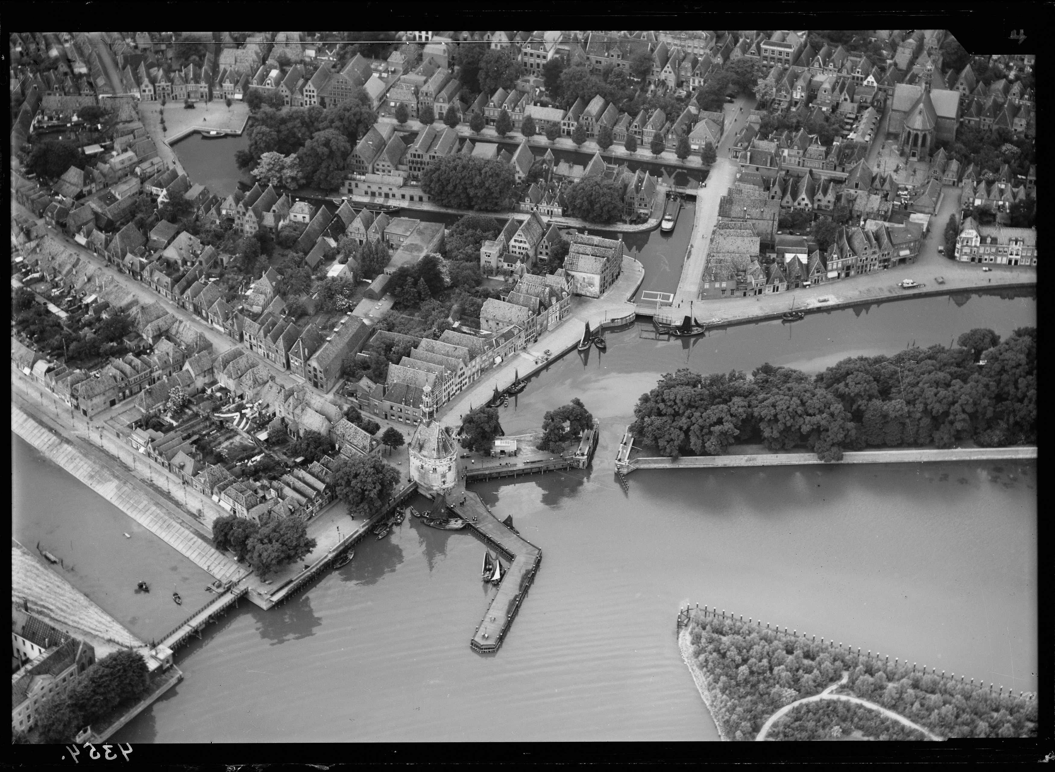 Aerial photograph of Hoorn, The Netherlands